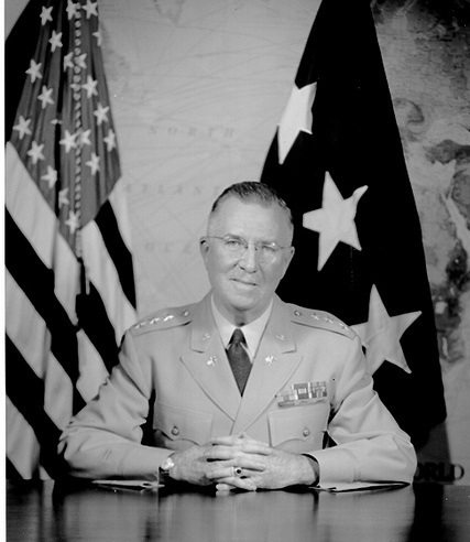 Lieutenant General James Dunne O'Connell as Chief of the U.S. Army Signal Corps, circa 1959.